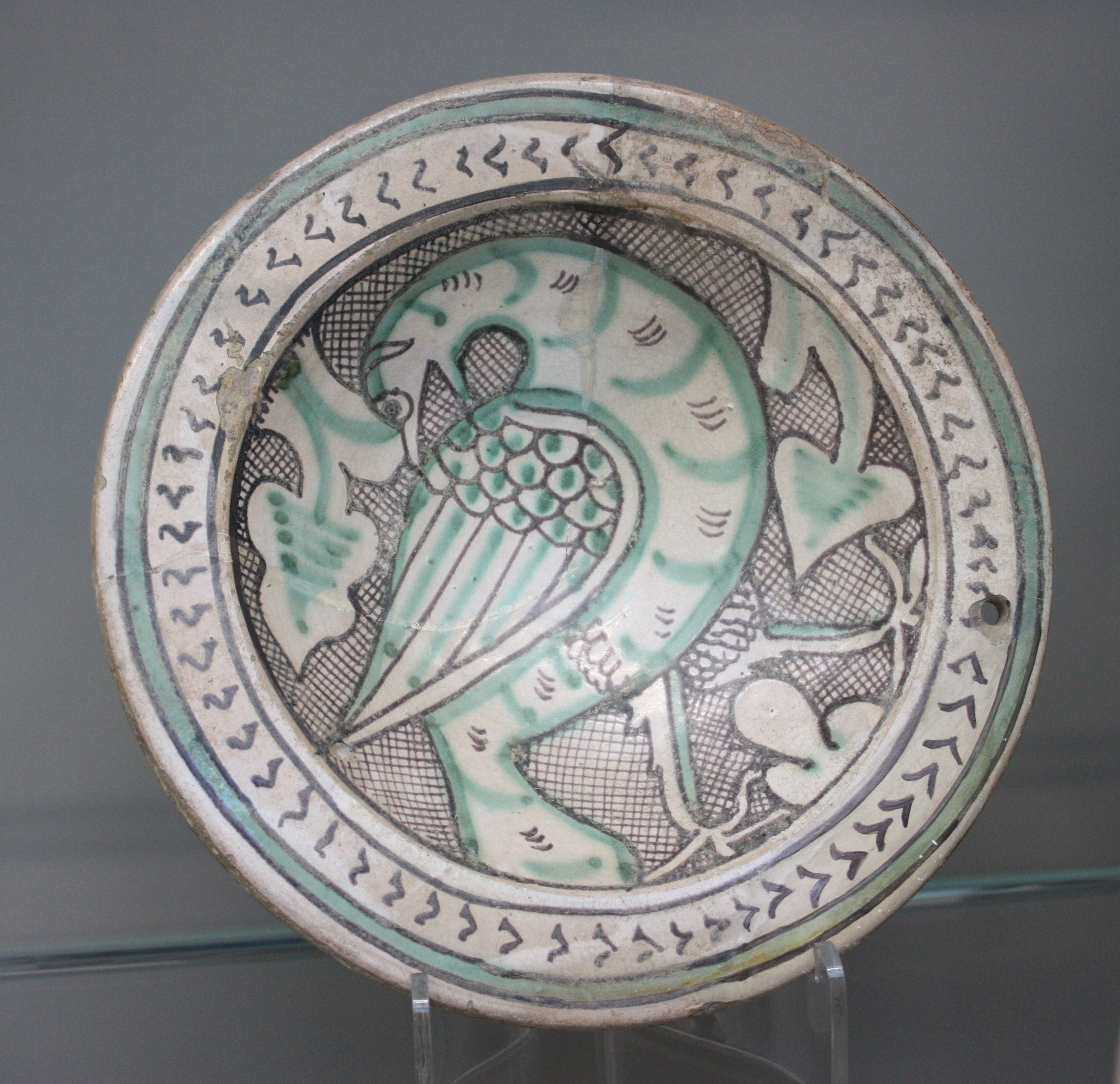 Dish with bird, Italy, Orvieto, 1270-1330 The design is probably copied from Islamic pottery Tin-glazed earthenware painted in mineral oxides, manganese and copper Collection ID: C.202-1928 This photo was taken as part of Britain Loves Wikipedia in February 2010 by Valerie McGlinchey.